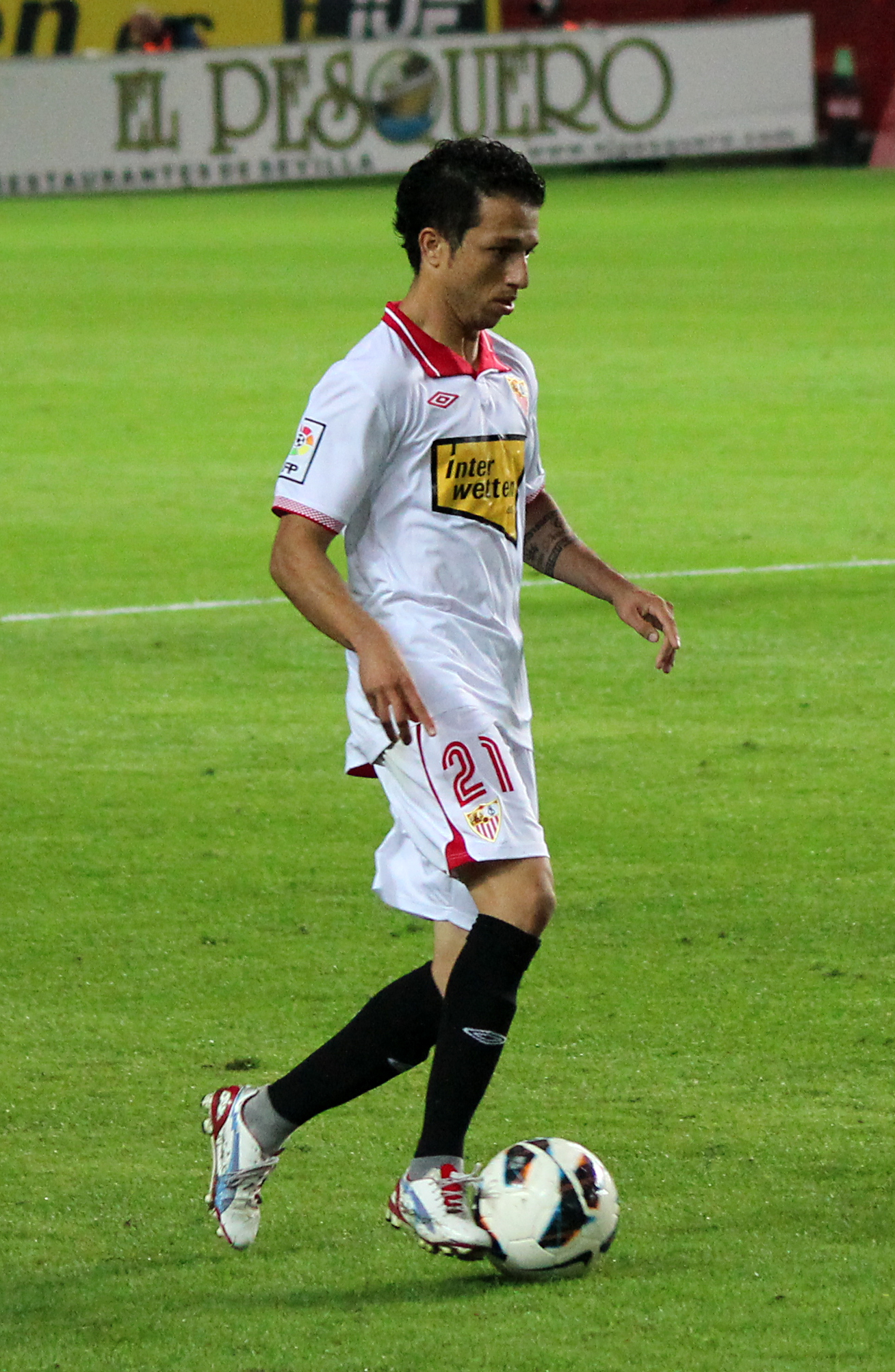 Brazilian footballer who plays as a right defender for La Liga side Sevilla FC.